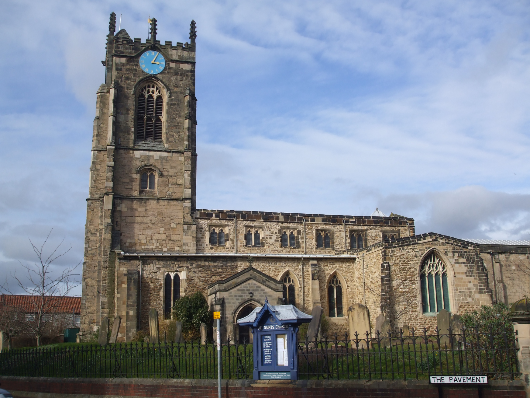 All Saints Church The Pavement Pocklington in the East Riding of Yorkshire, England.